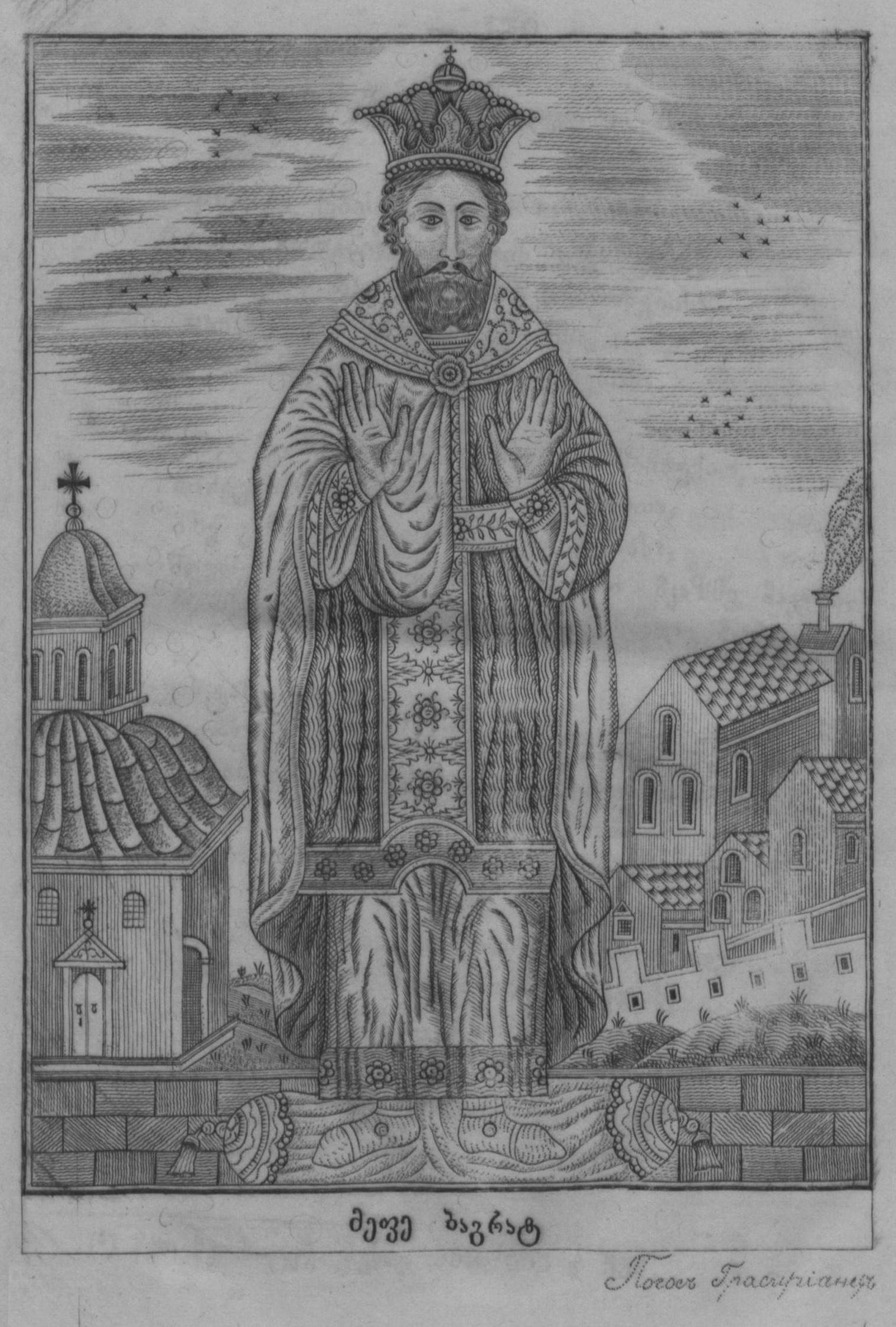 King Bagrat IV of Georgia